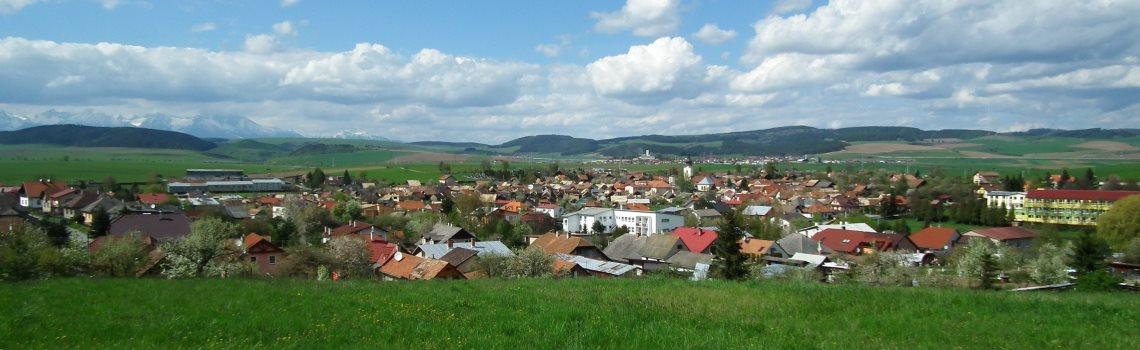 Panoramic view